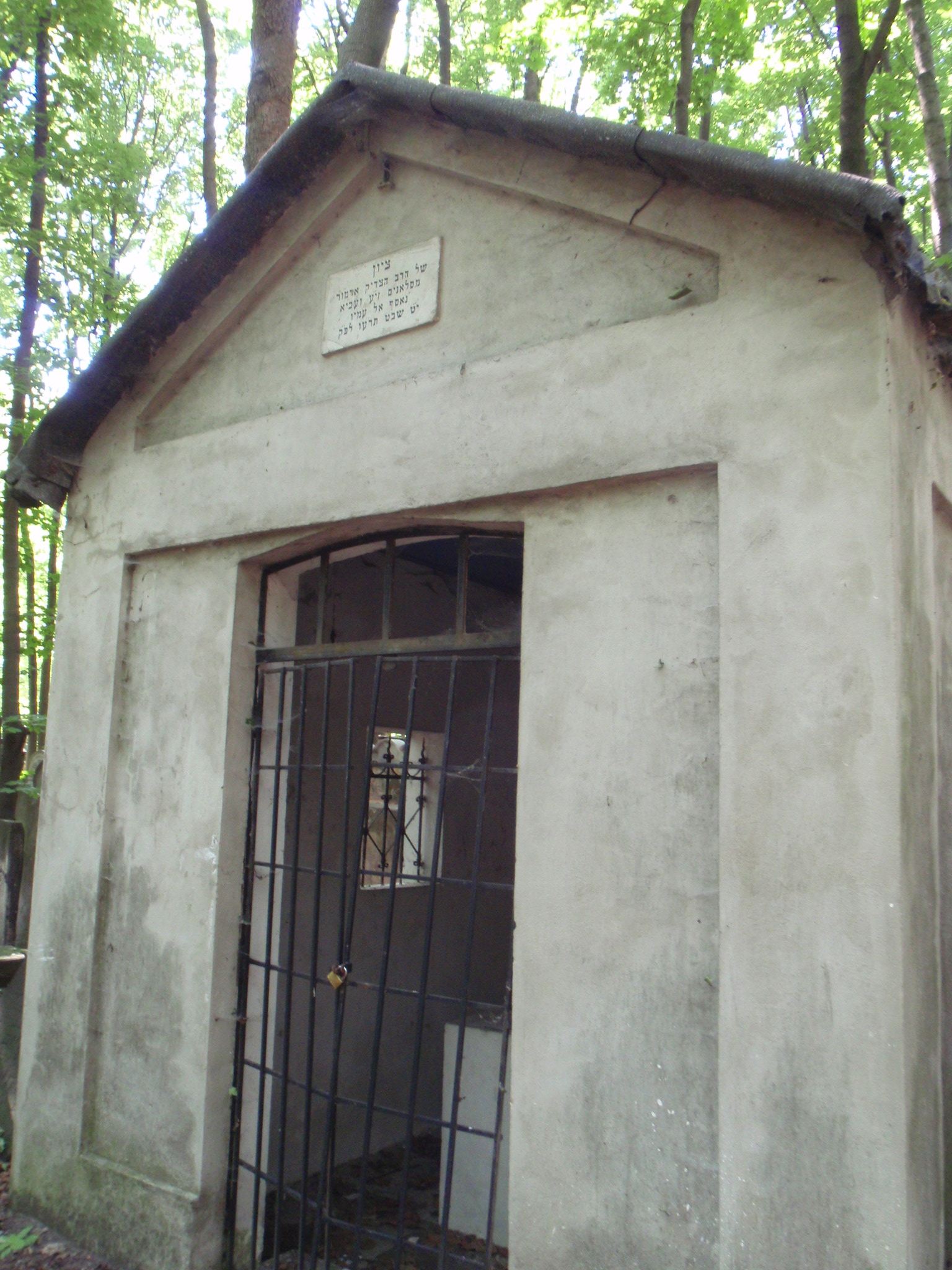 Ohel of Samuel Weinberg tzadik from Słonim